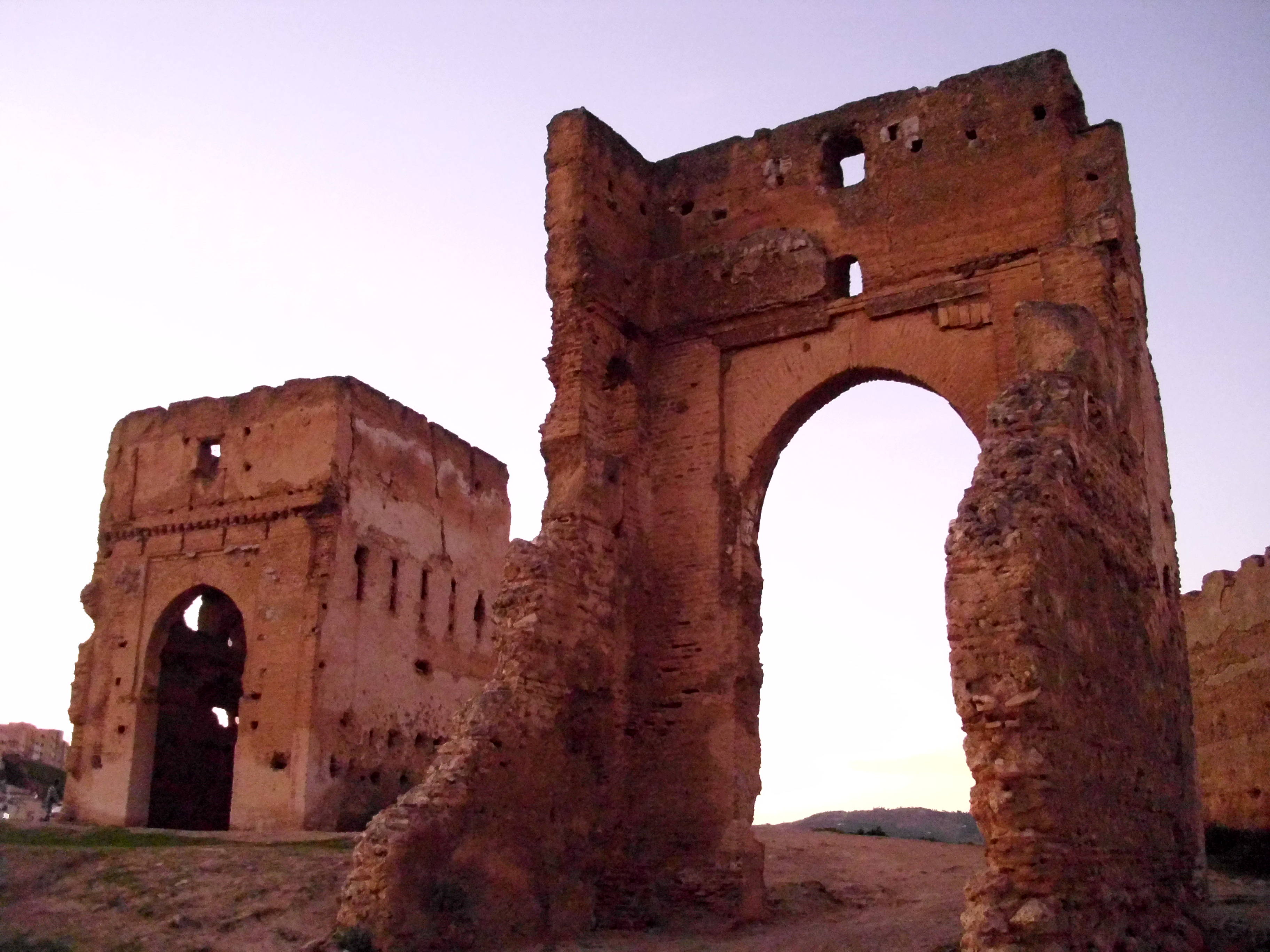 Marinid Tombs "al - Qulla" above Fes, Morocco.